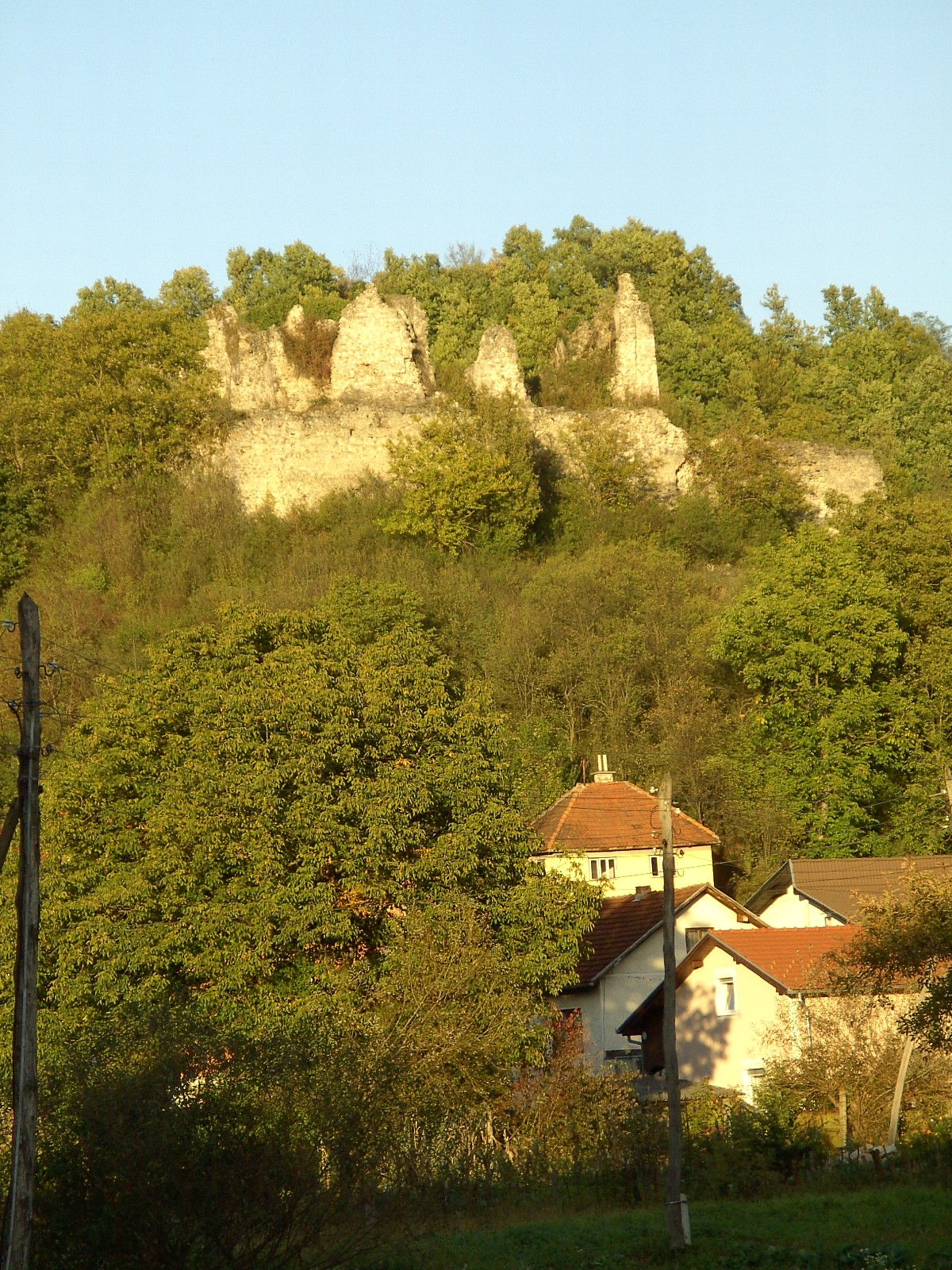 The village of Vrnograč with castle ruins, BiH